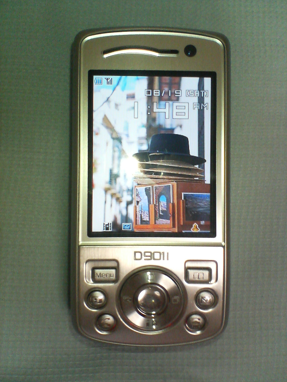 NTT DoCoMo FOMA D901i by Mitsubishi Electric, Sterling Silver, close. NTTドコモ FOMA D901i、三菱電機製、スターリングシルバー、閉じた状態。